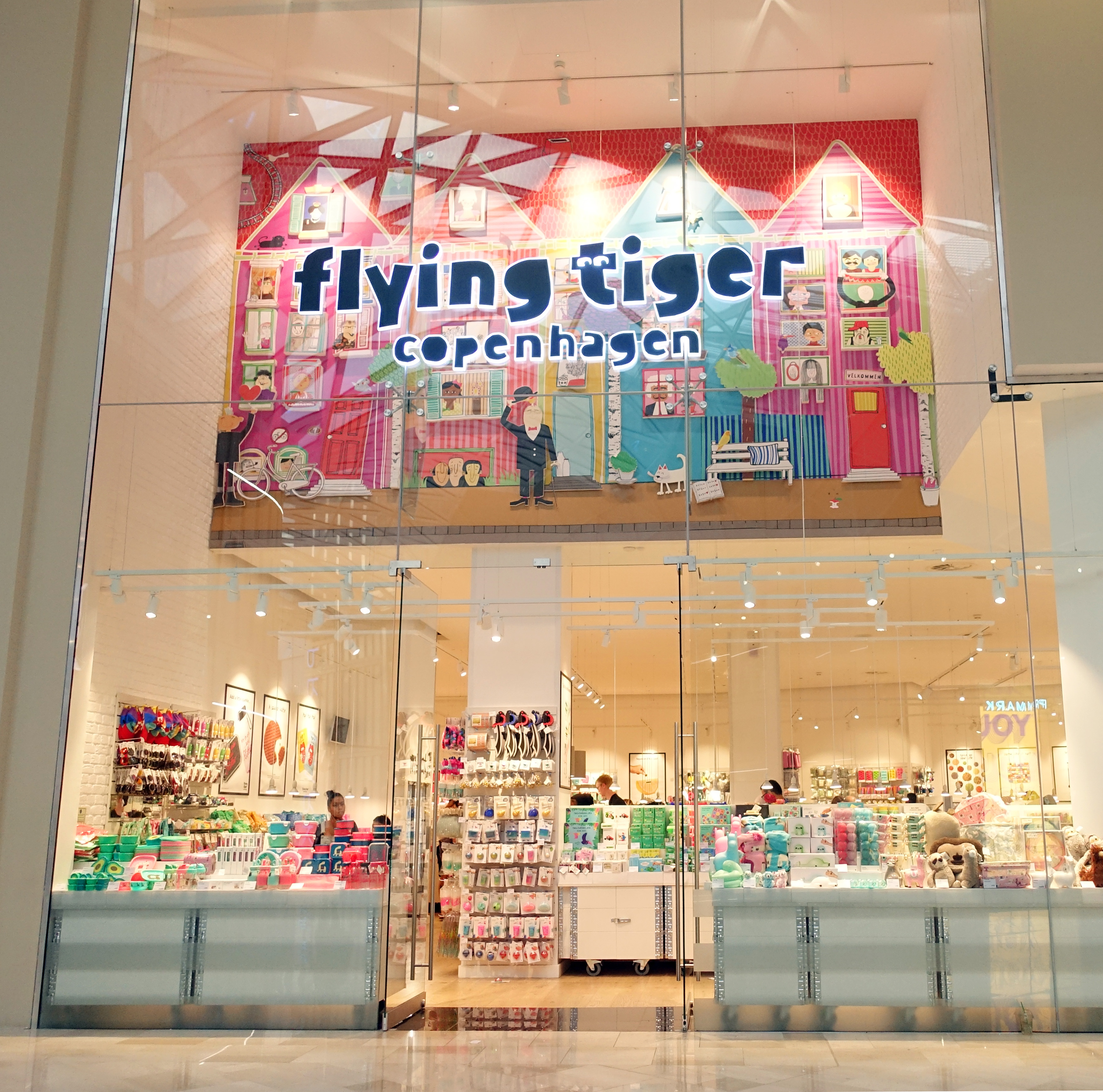 Flying Tiger Copenhagen in Westfield shoppint center, London.